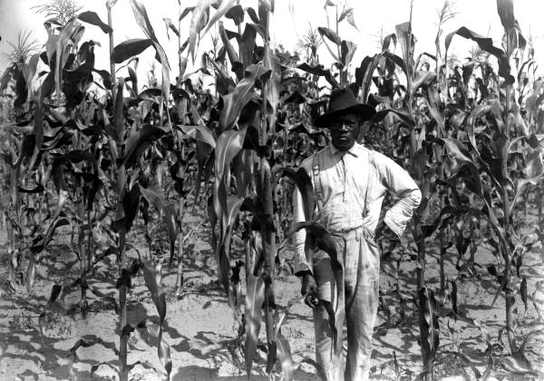 "African American farmer standing in corn field: Alachua County, Florida ".Local call number: Rc13671Title: African American farmer standing in corn field: Alachua County, FloridaPhysical descrip: 1 photoprint: b&w; 5 x 7 in.Series Title: (Reference Collection.)Repository: State Library and Archives of Florida, 500 S. Bronough St., Tallahassee, FL 32399-0250 USA. Contact: 850.245.6700. URL